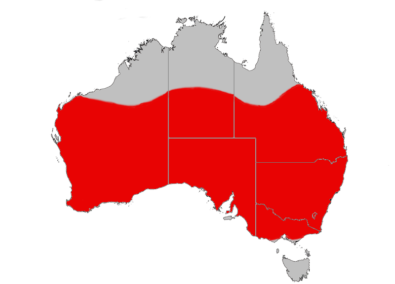 Range of the Red capped robin